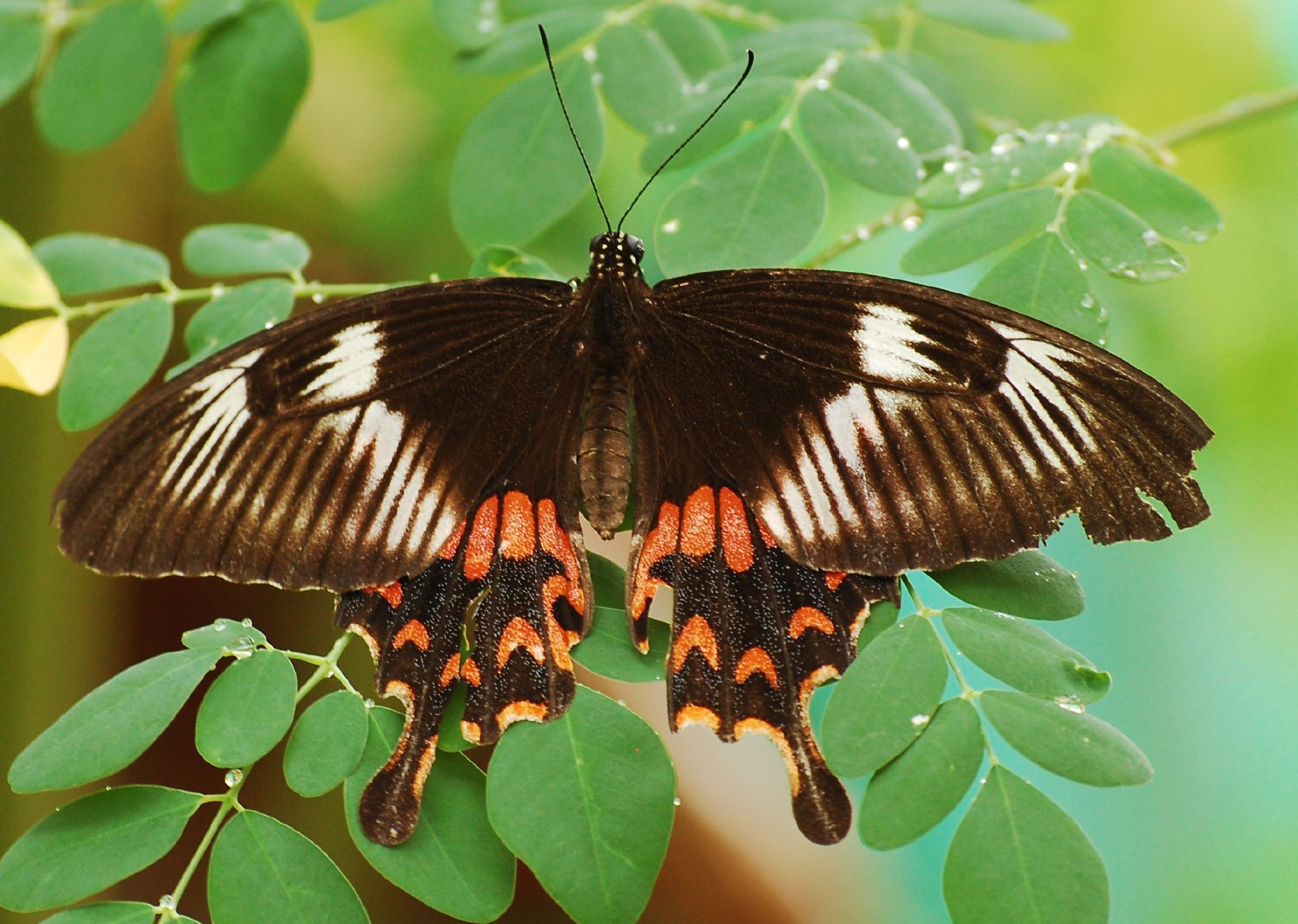 Papilio polytes shot at chalakudy kerala exp. 1/8 seconds handheld The food plants of the caterpillar are mainly the common Lime Plant and the Indian Curry Leaf Plant